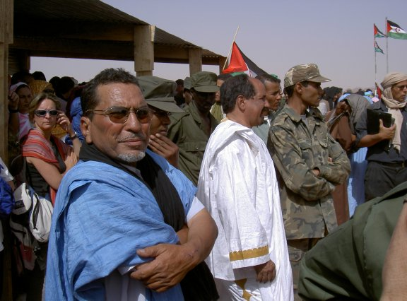 President of the SADR (in Spanish, RASD), Mohamed Abdelaziz